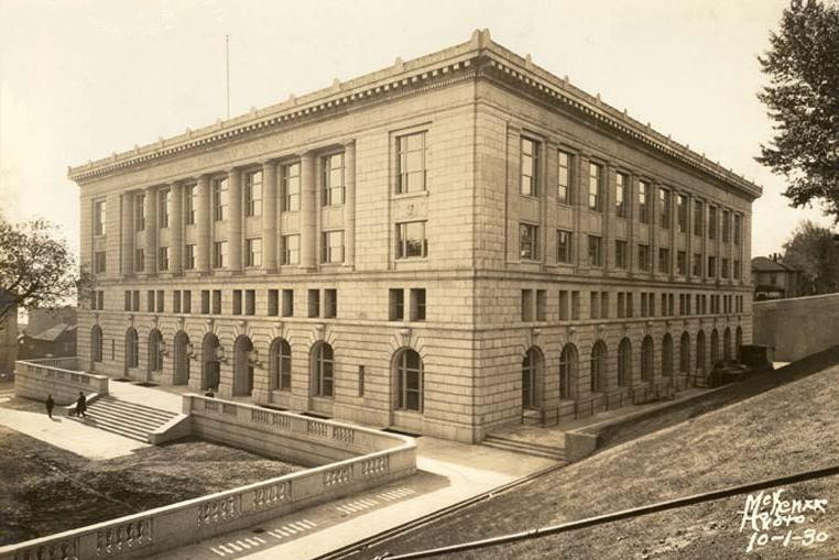 The Gerald W. Heaney Federal Building, United States Courthouse and Custom House (formerly the U.S. Post Office, Court House, and Custom House). Completed in 1930. Supervising Architect: James A. Wetmore Still in use by the U.S. District Court for the District of Minnesota.